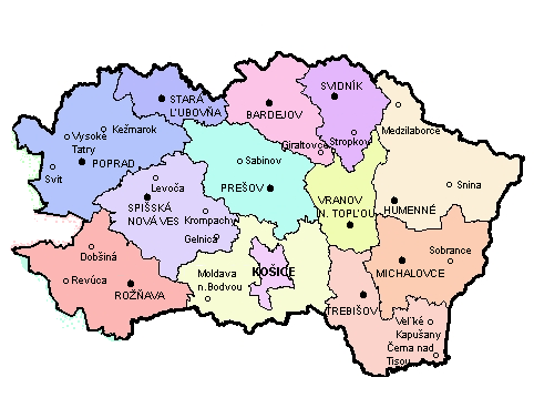 Map of Východoslovenský kraj (1960-1990), Czechoslovakia